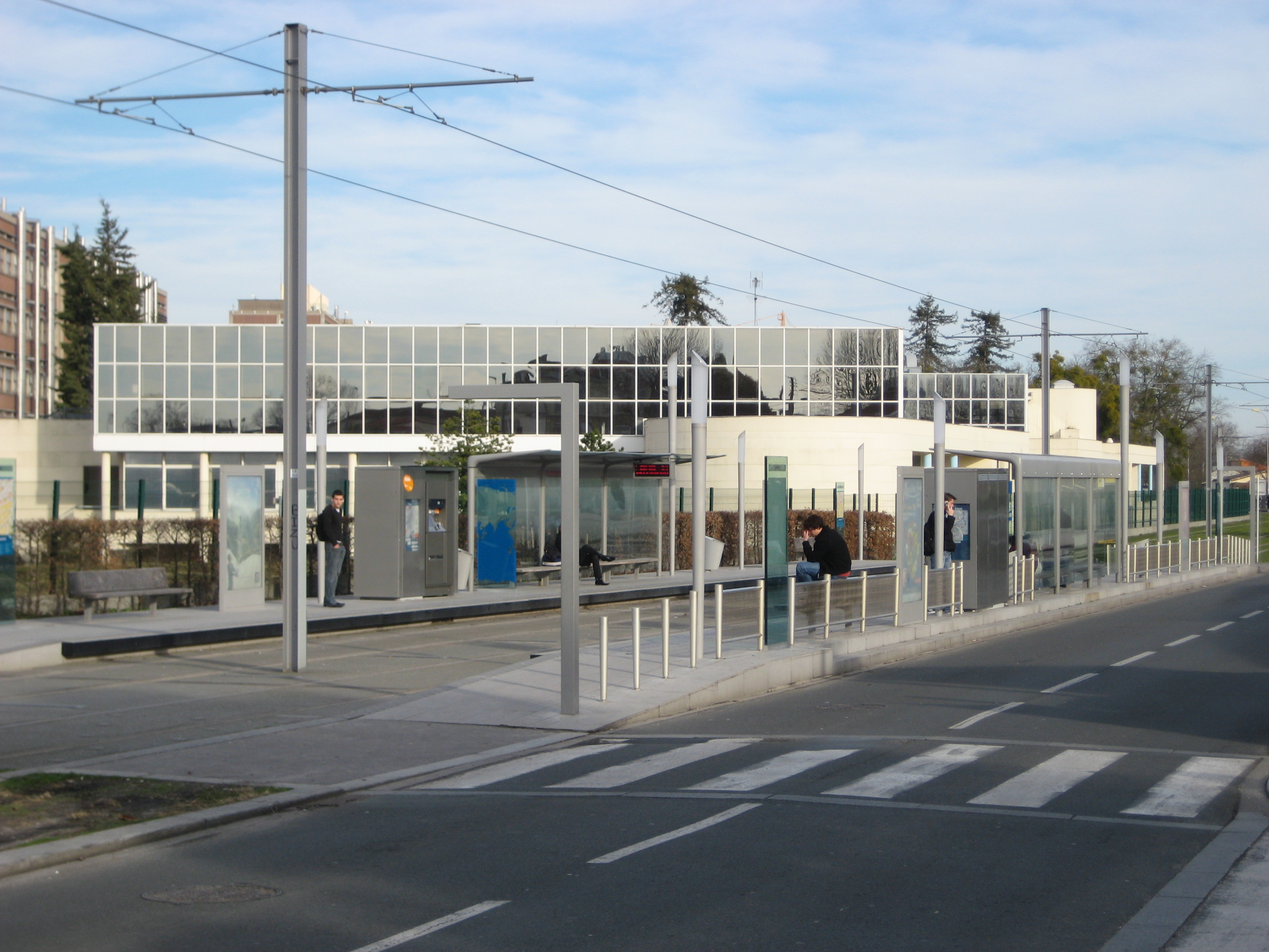 Station Béthanie on the Tramway de Bordeaux